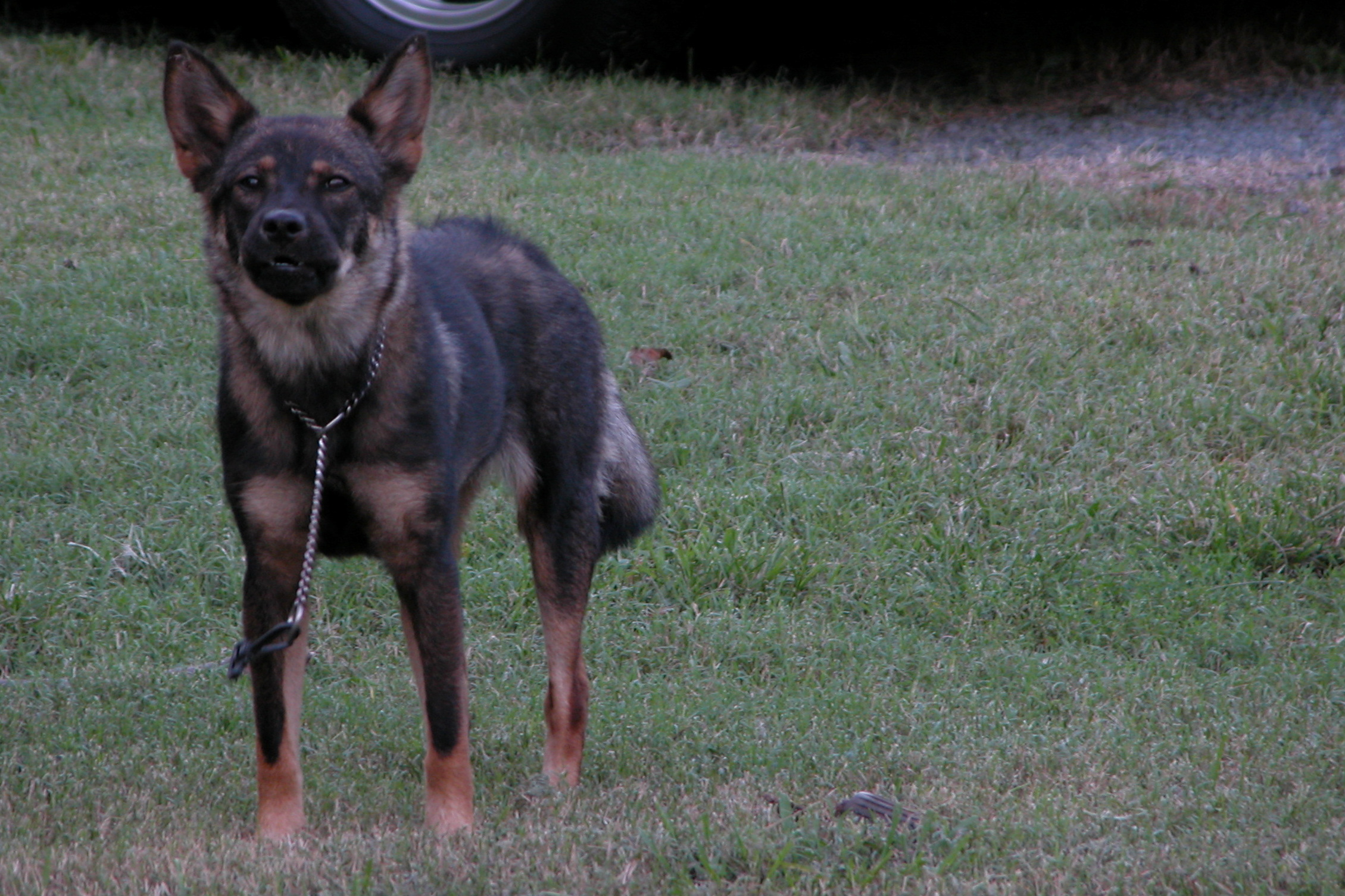 A protective dog showing mild aggression.